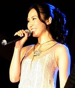 Gigi Lai, cut to fit Wikipedia infoboxes. Bân-lâm-gú: 黎姿。 Lê Tsu